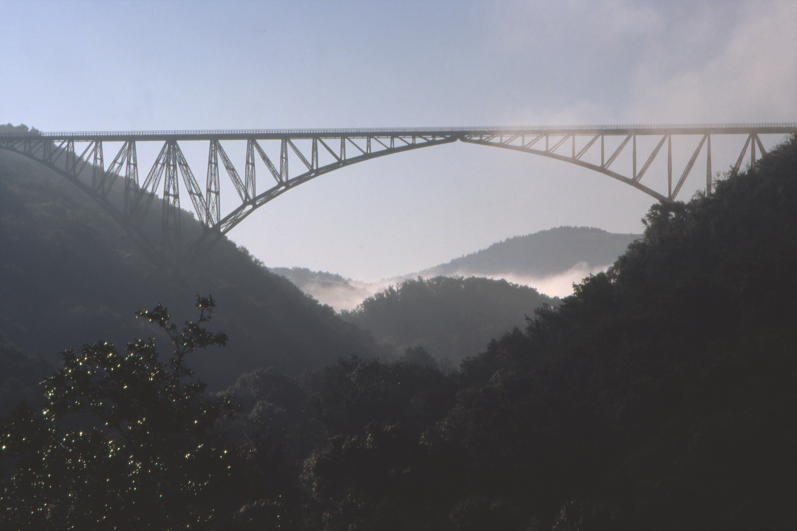 Viaur viaduct, view from western Viaur valley, department Aveyron, France